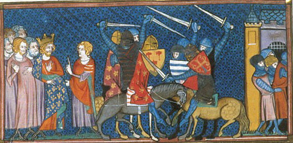 Fulk IV of Anjou making terms with king Philip I of France, Fulk IV defeating his brother Geoffrey III and imprisoning him. (British Library, Royal 16 G VI f. 270)